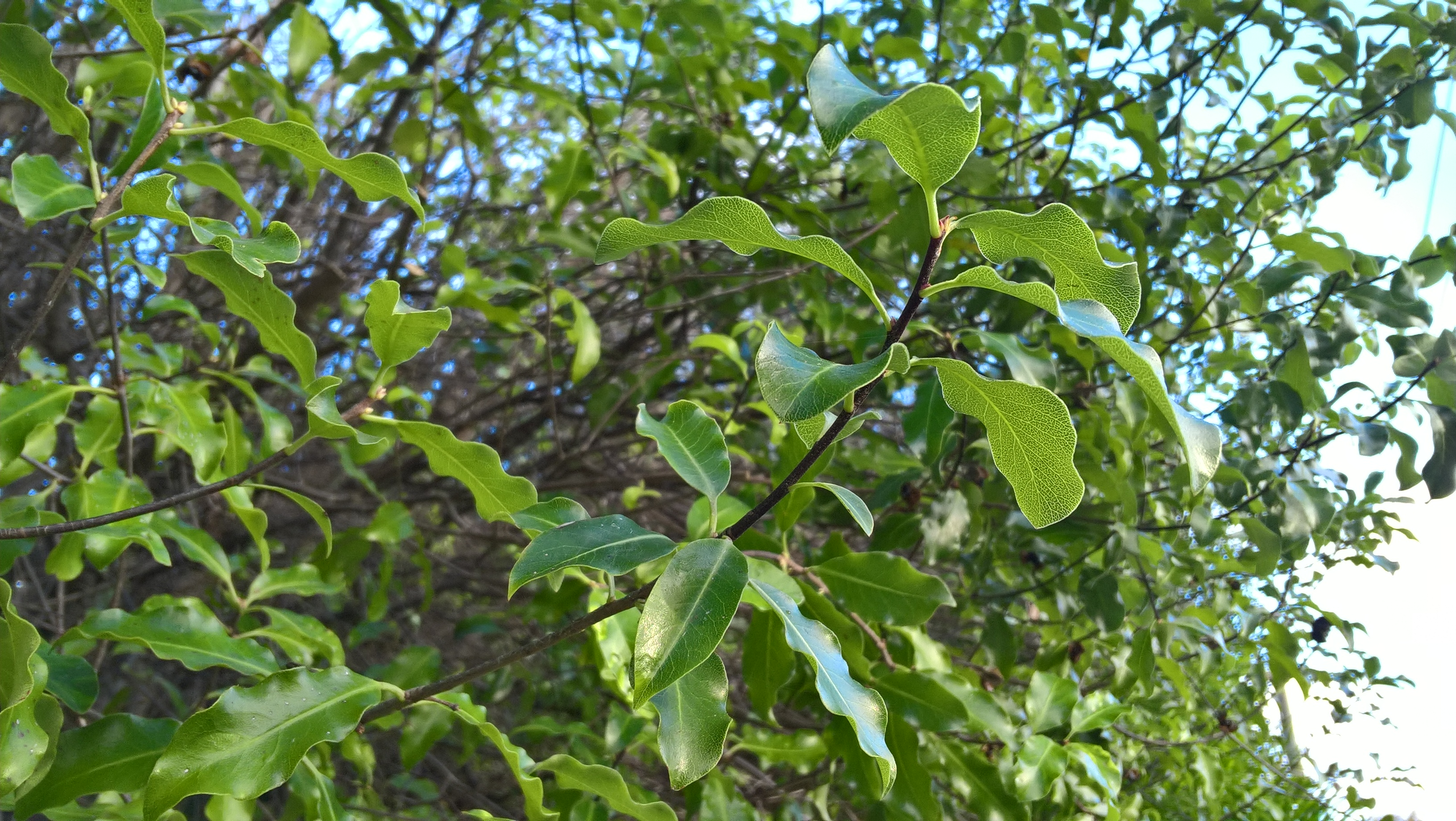 A branch of kōhūhū